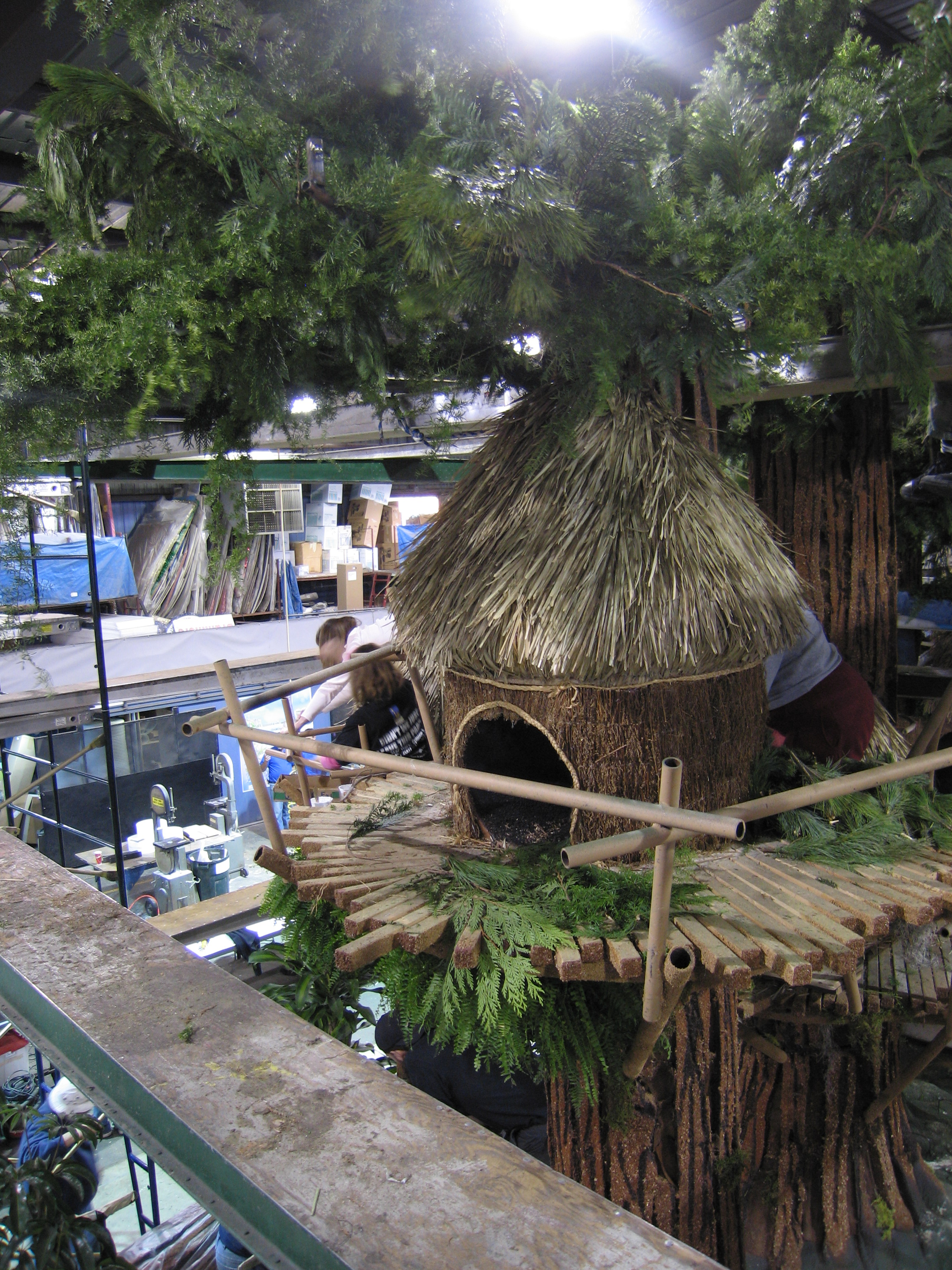 The Ewok village (Rose Parade 2007). Orginal text:my next project was to put branches on one of the trees in the ewok village. i had to stand on scaffolding 30 feet up in the air without anything to secure me - it was a little vertigous, but a ton of fun.